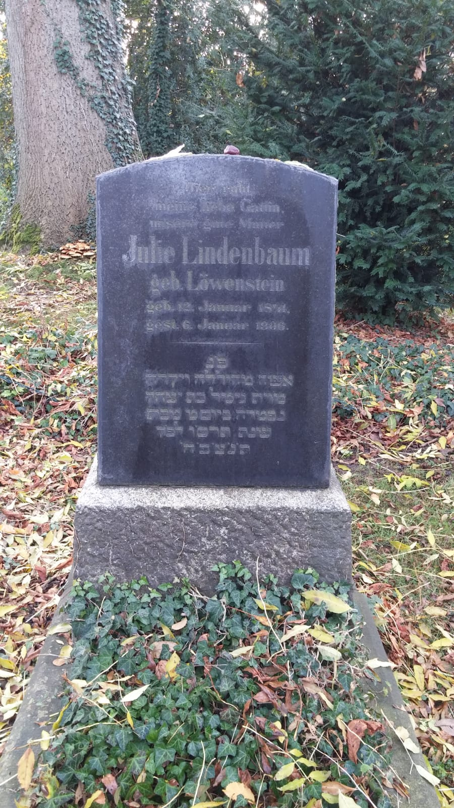 Dortmund Dorstfeld jewish graveyard a